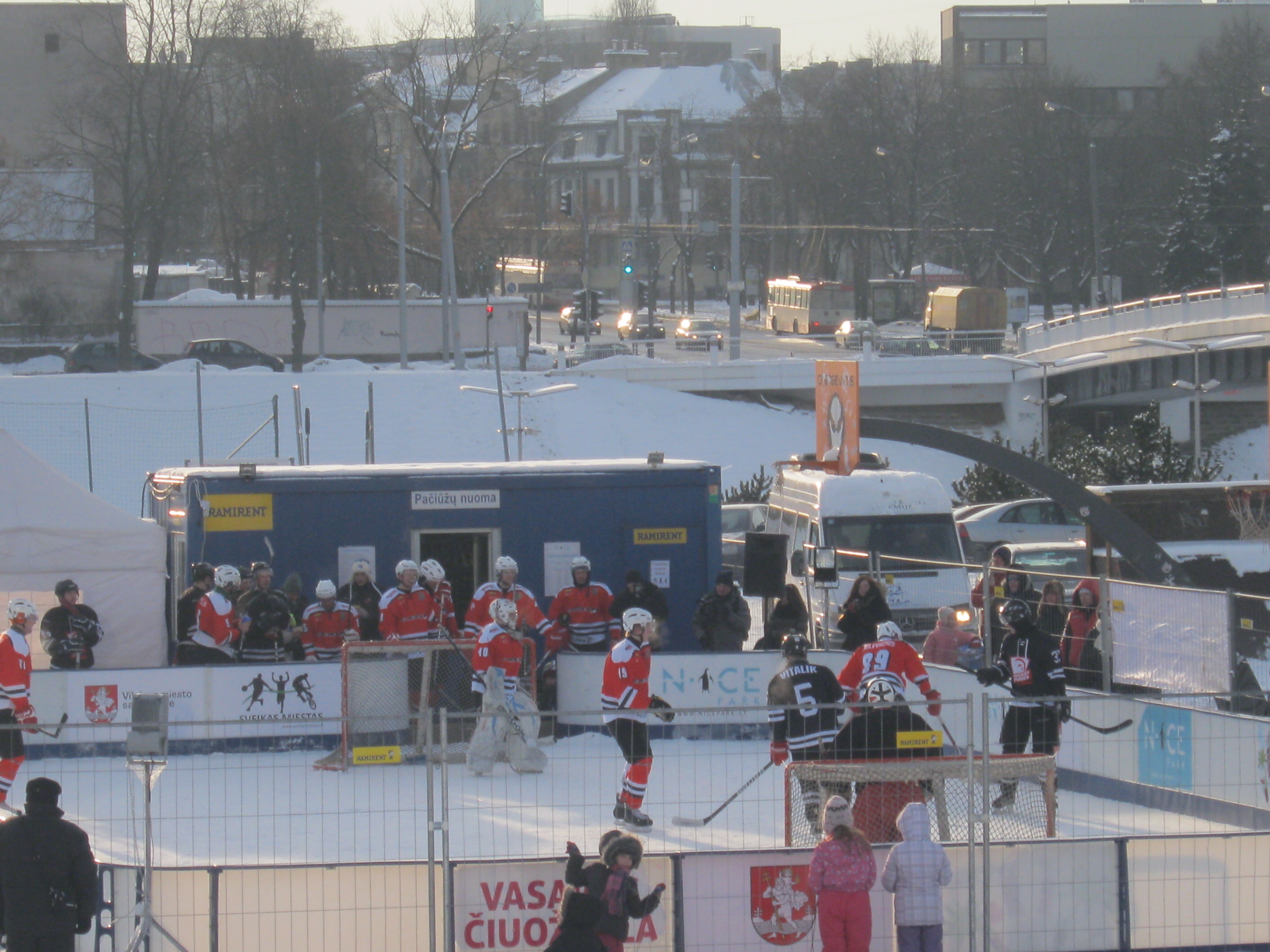 Vilnius: 3x3 HC Energija vs. HC Vilnius Hockey Punks